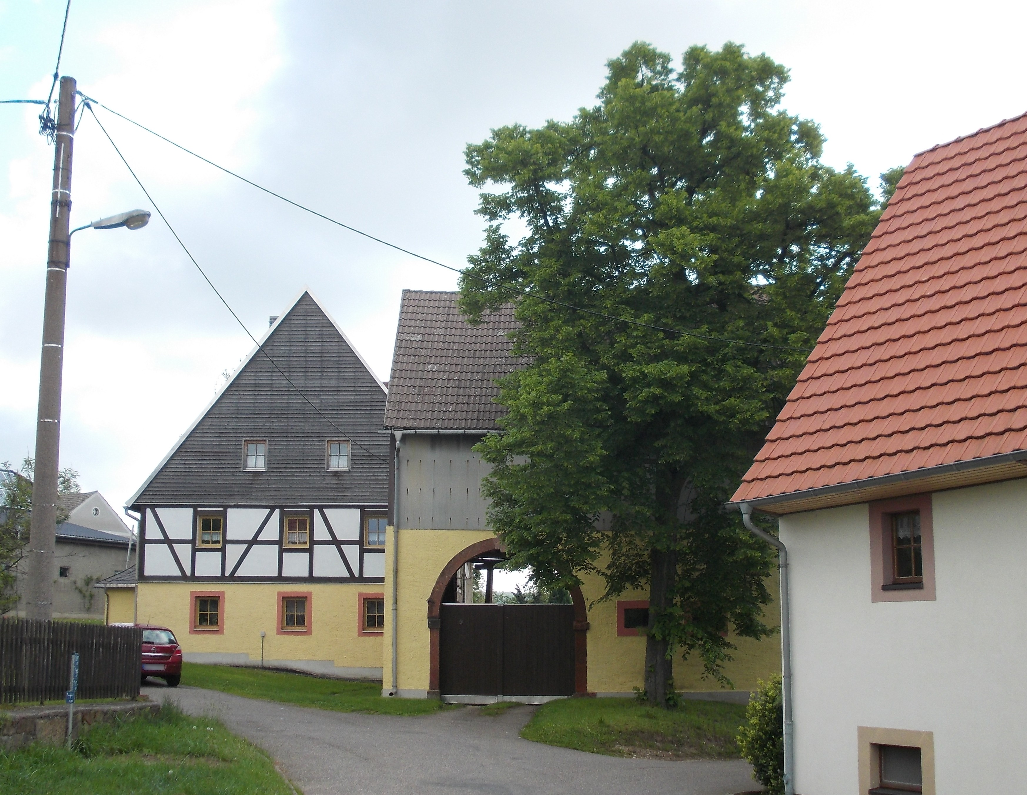 Farmstead in Mutzscheroda (Wechselburg, Mittelsachsen district, Saxony)